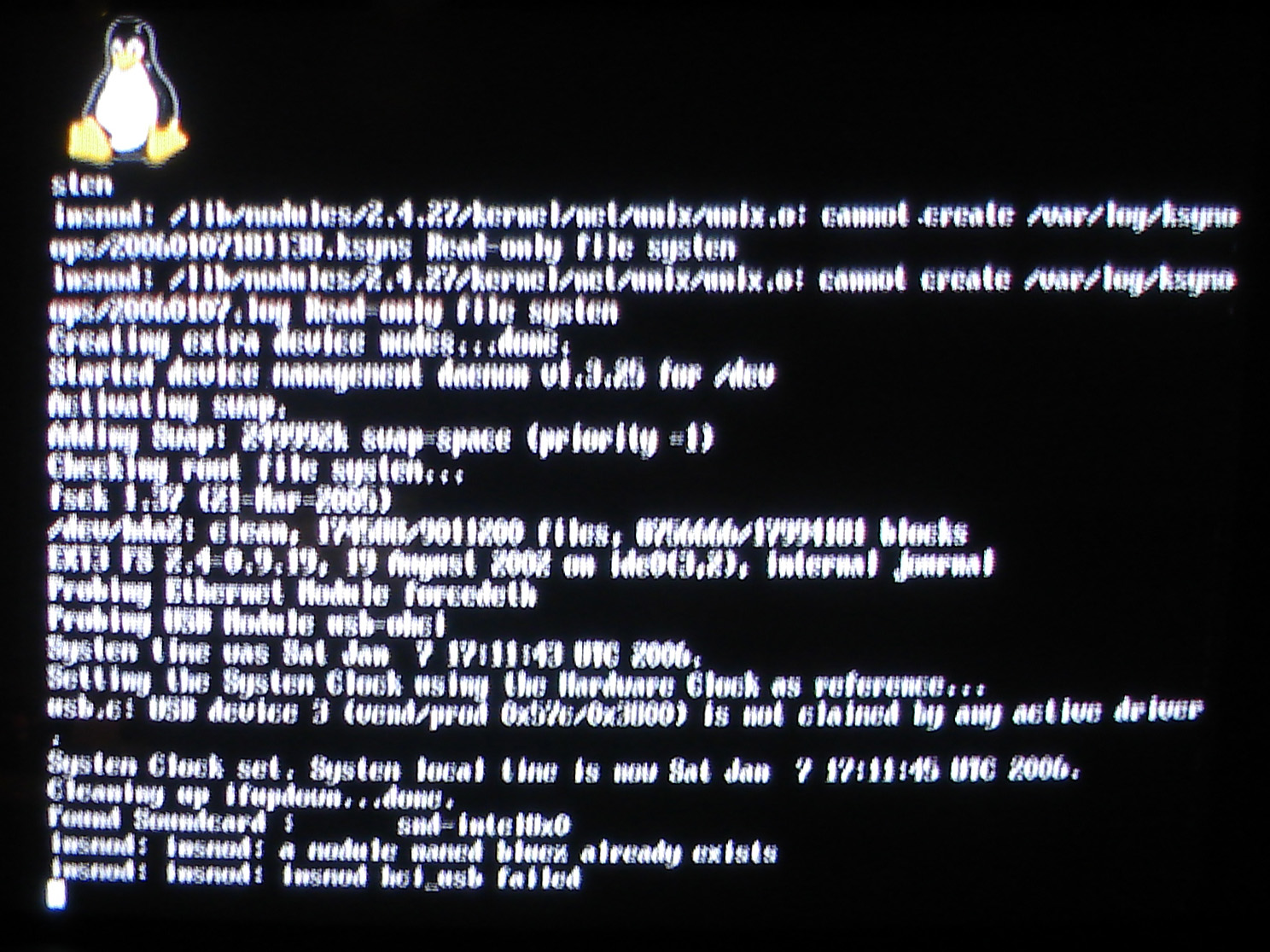 A closeup of the tv screen showing xbox linux (xebian) booting. Picture made by me.